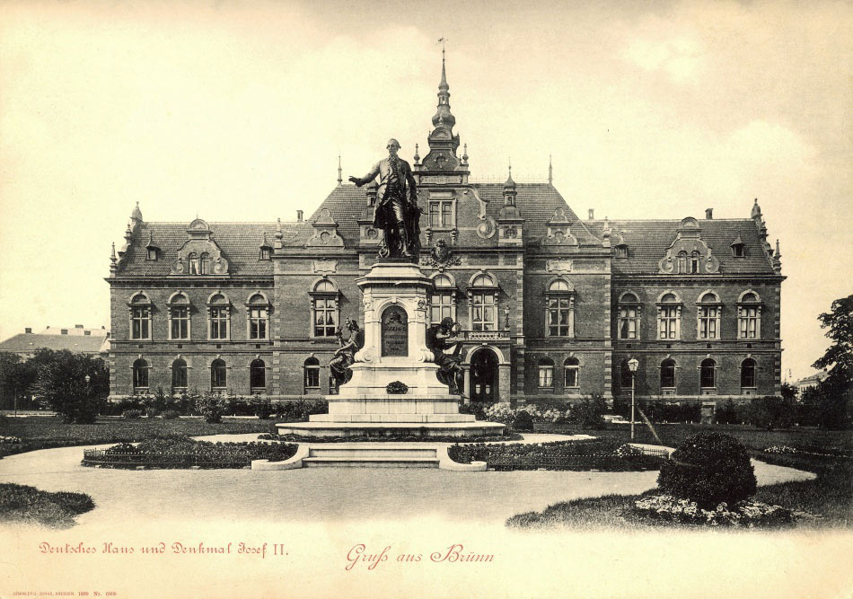 The German House in Brno